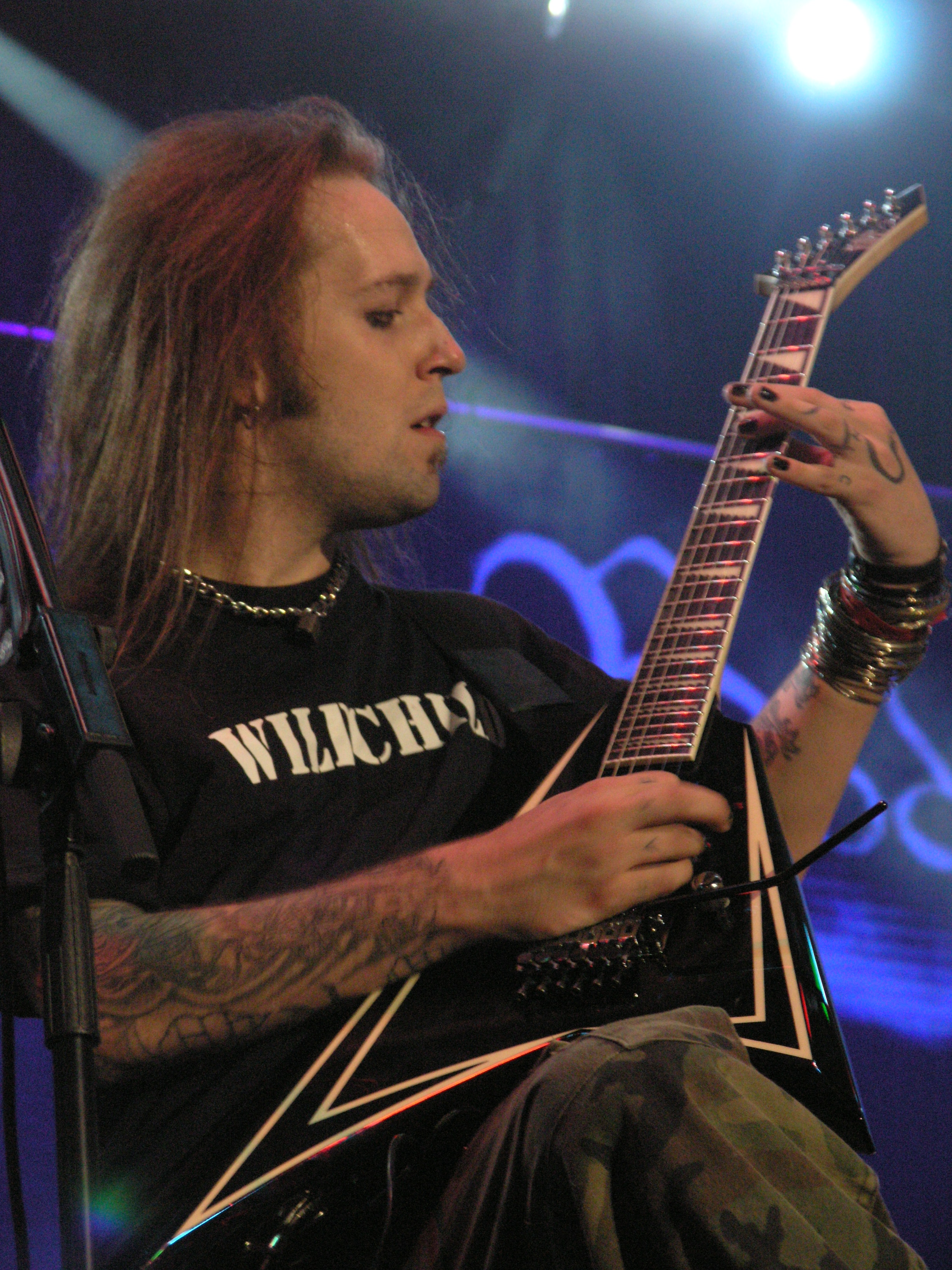 Alexi Laiho from Children of Bodom during Masters of Rock 2007 festival